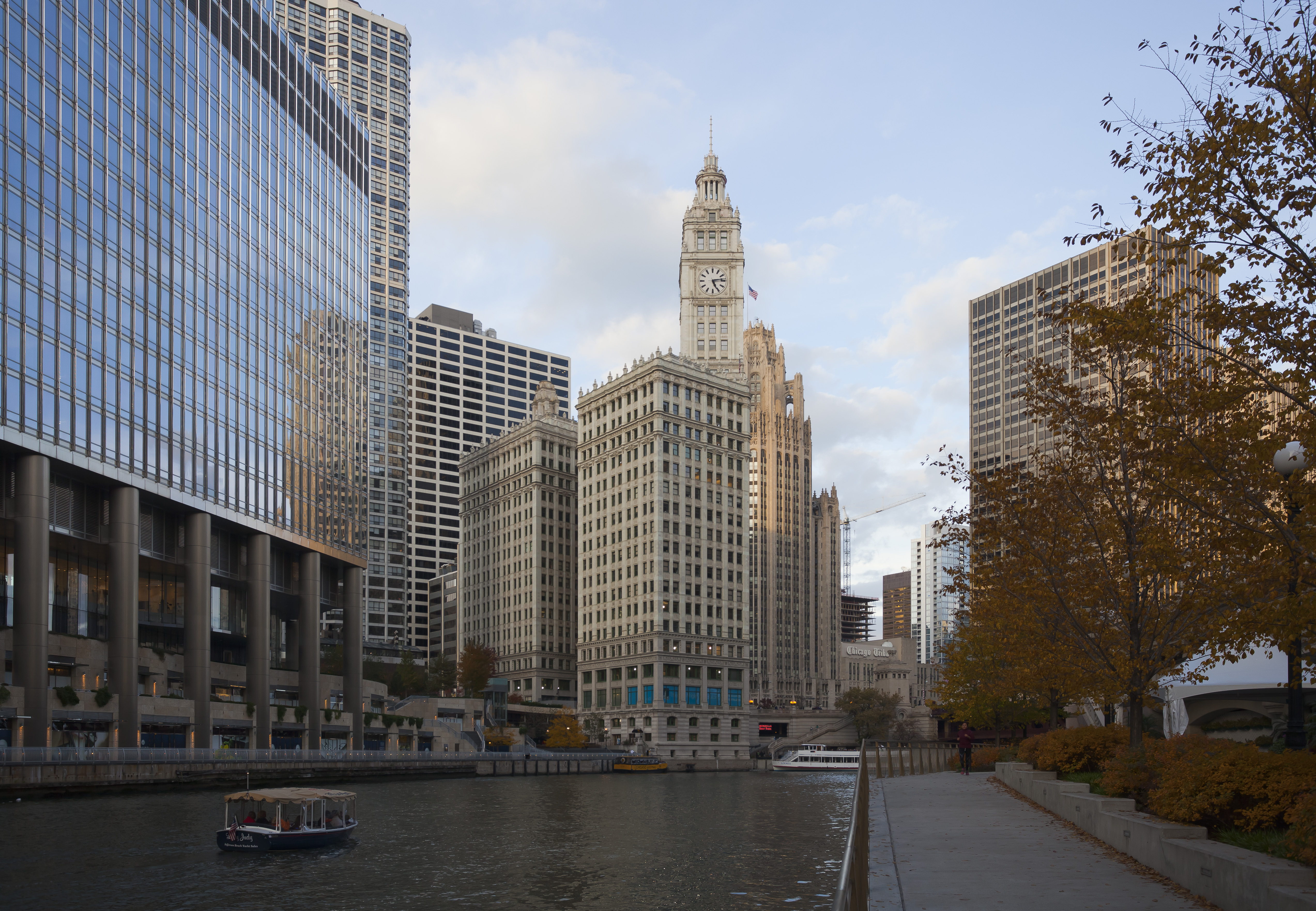 Chicago River, Chicago, Illinois, USA